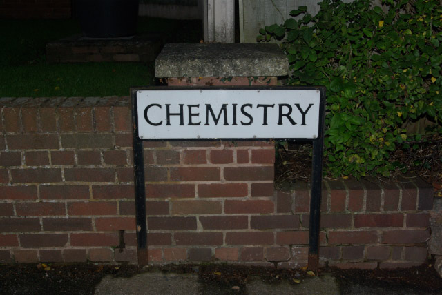 Chemistry This unusual name is derived from a local farm and now applies not only to a road but also the western suburb of Whitchurch.